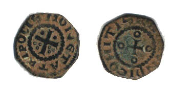 Coin of Raymond II of Tripoli